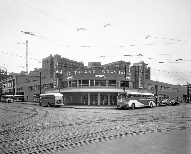 Northland Greyhound station at 7th Street and 1st Avenue, Minneapolis